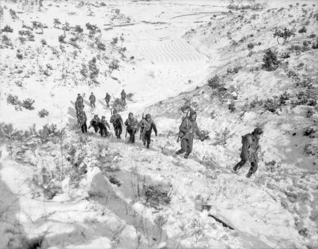 An Australian patrol from 3rd Battalion goes back to the Uijongbu area.